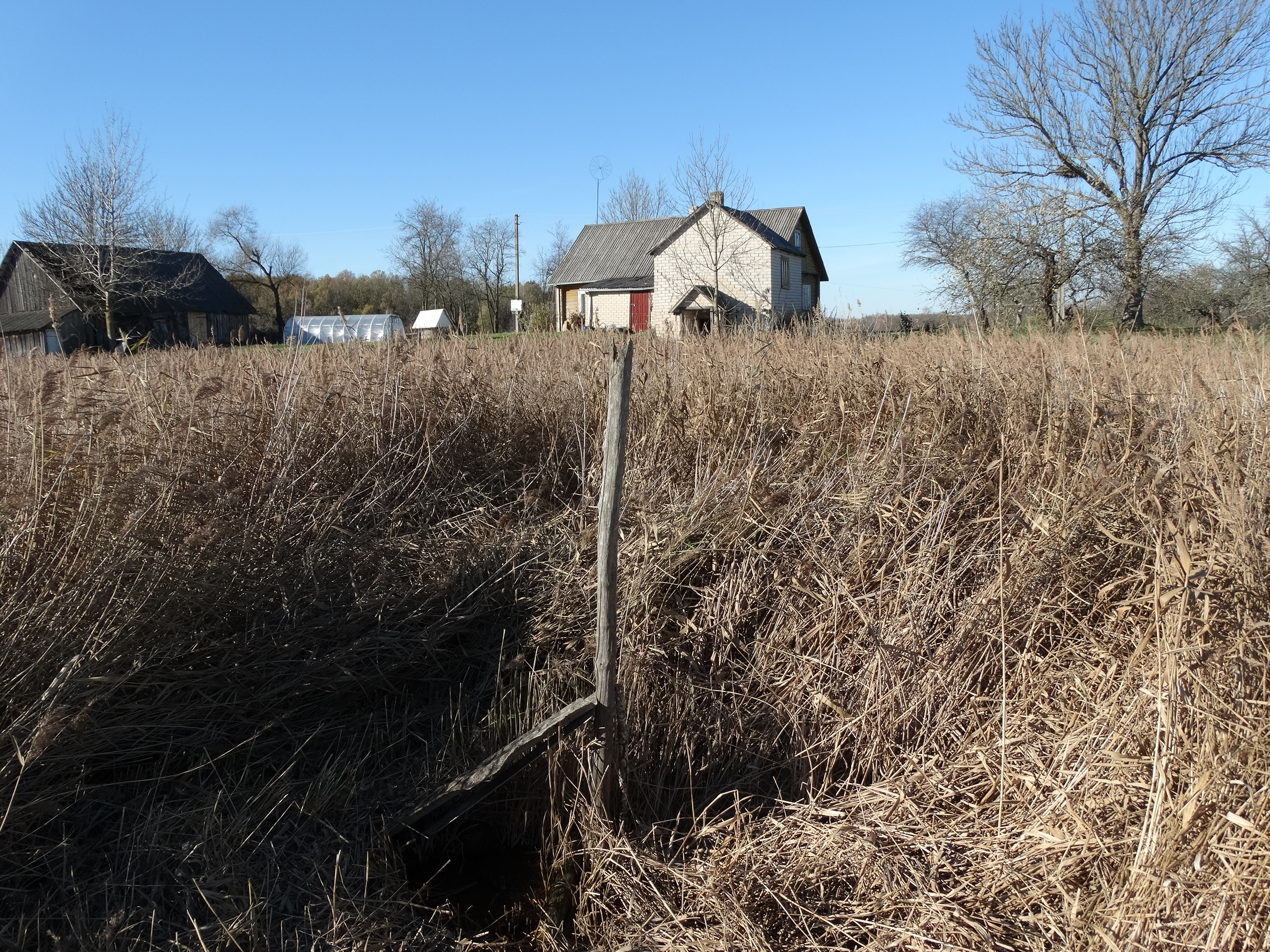 Žiupa Spring, Prienai District, Lithuania